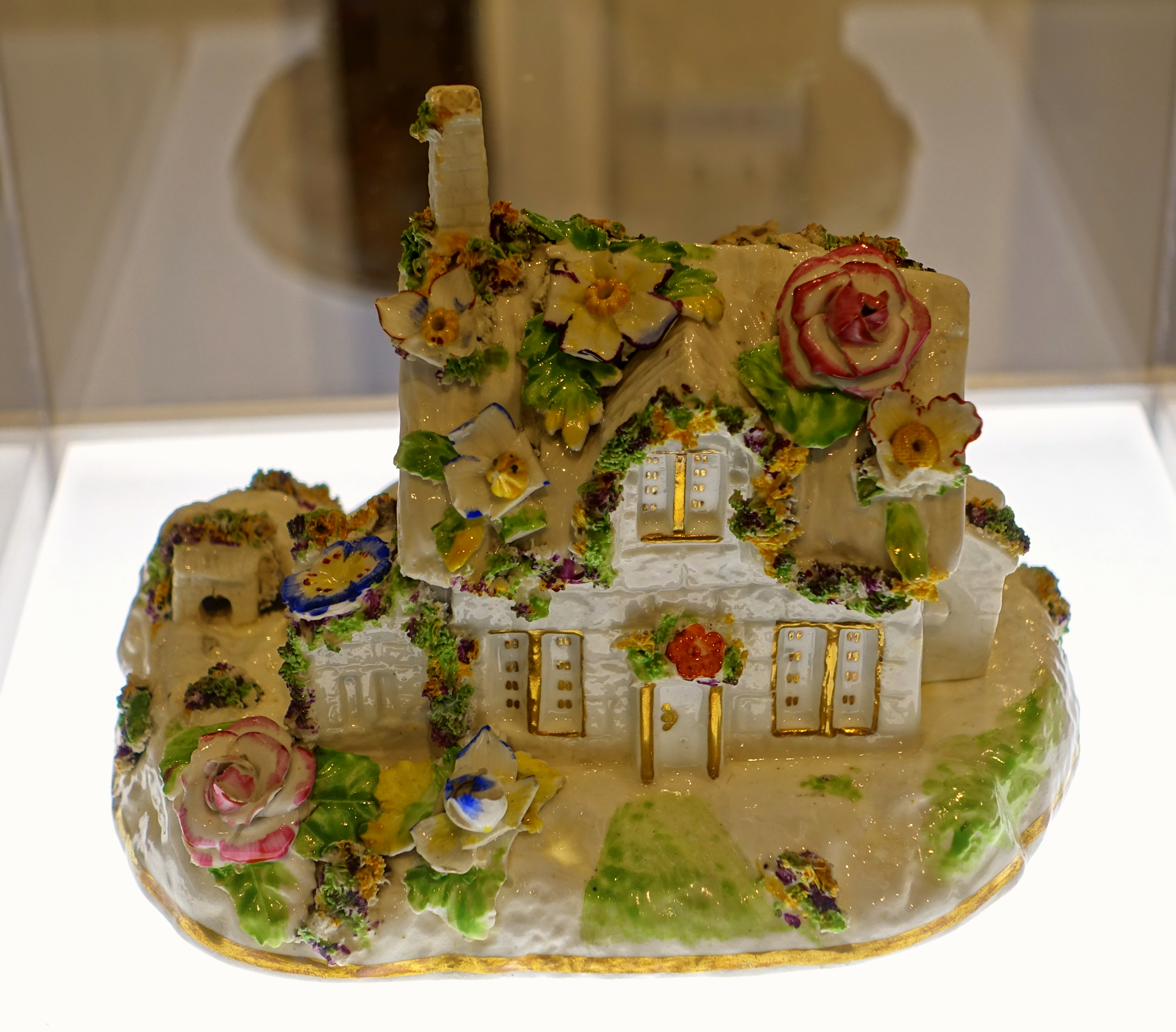 Exhibit in the Montreal Museum of Fine Arts - Montreal, Quebec, Canada.